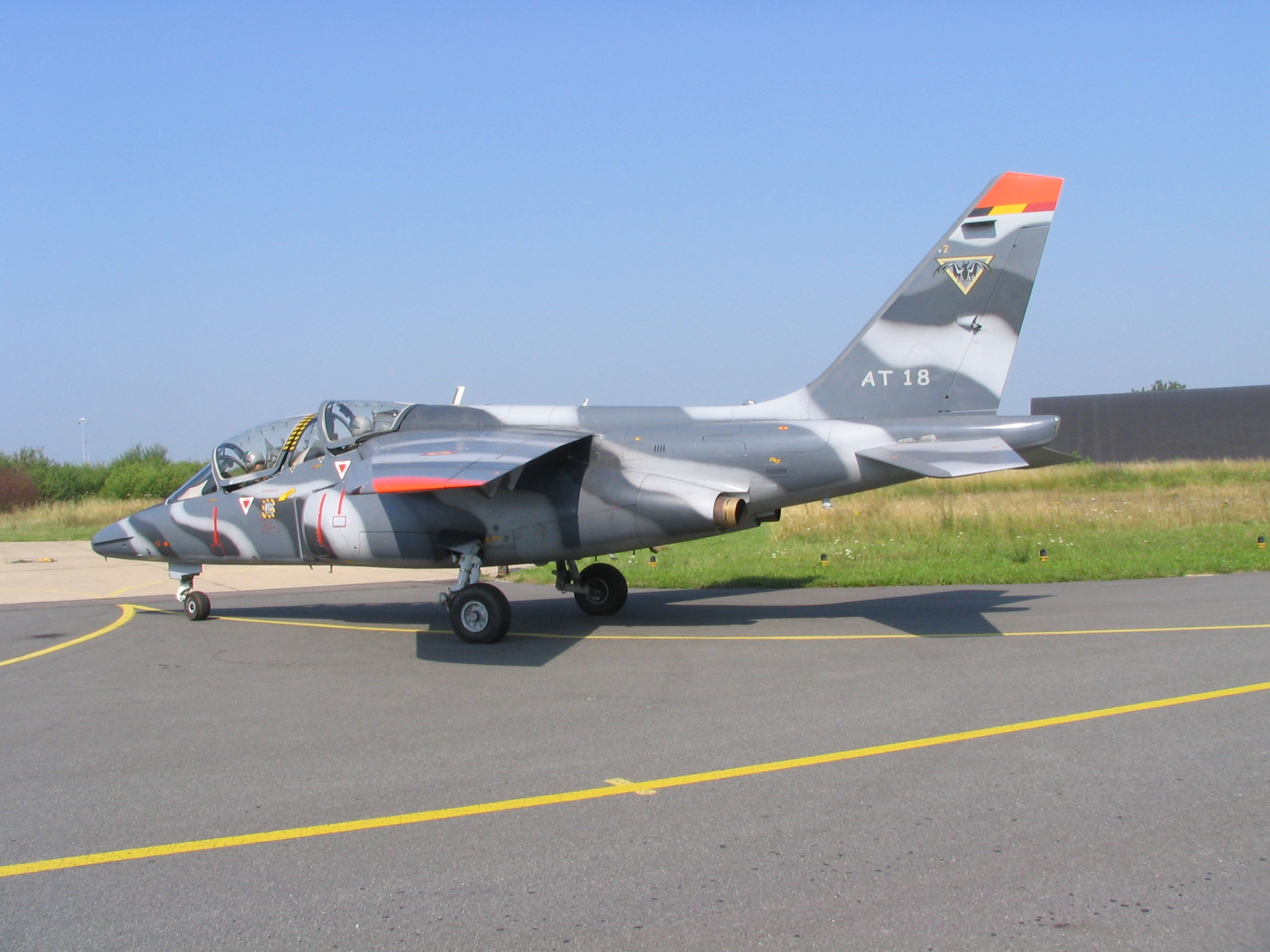 Military belgian training aircraft Alpha-Jet taxing (immatriculation AT-18)